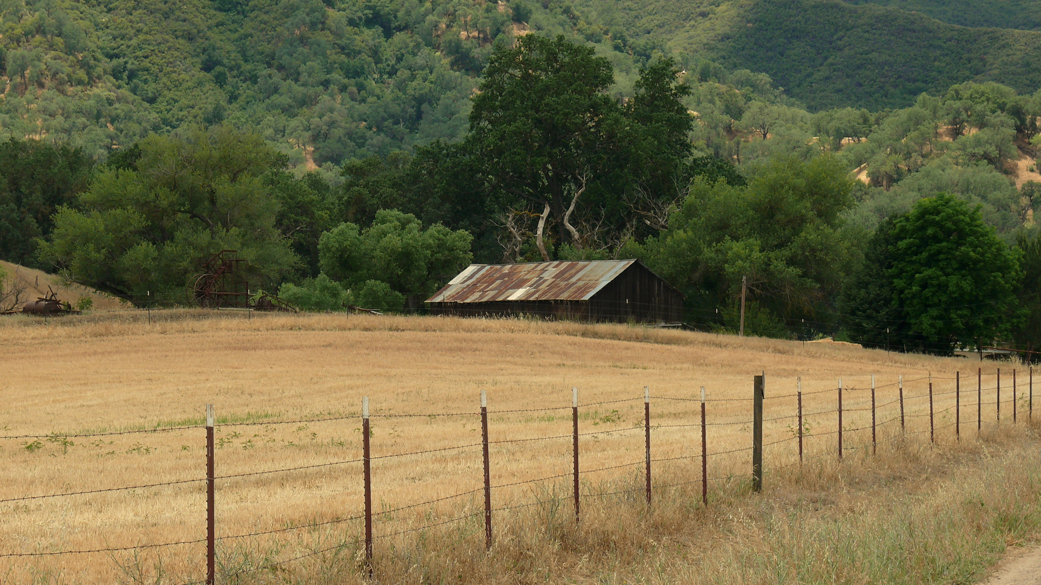 Barn in Pozo, California, United States